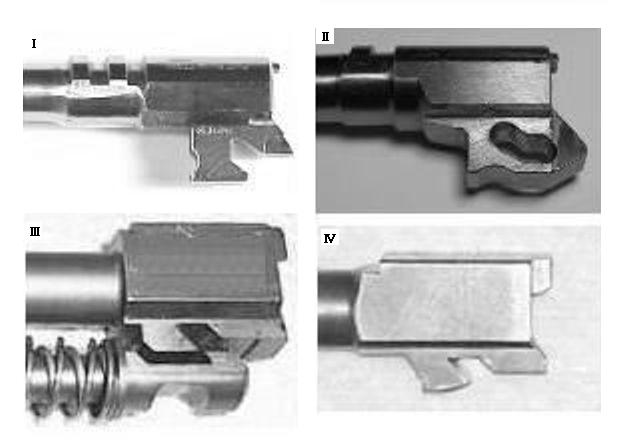 Type of the Short-recoil pistols Locking-Lug. Ⅰ.Browning Hi-Power, Ⅱ.CZ75, Ⅲ.H&K USP, Ⅳ.Glock